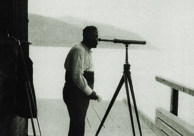 Gustav Klimt while painting with a telescope at Attersee, circa 1905.